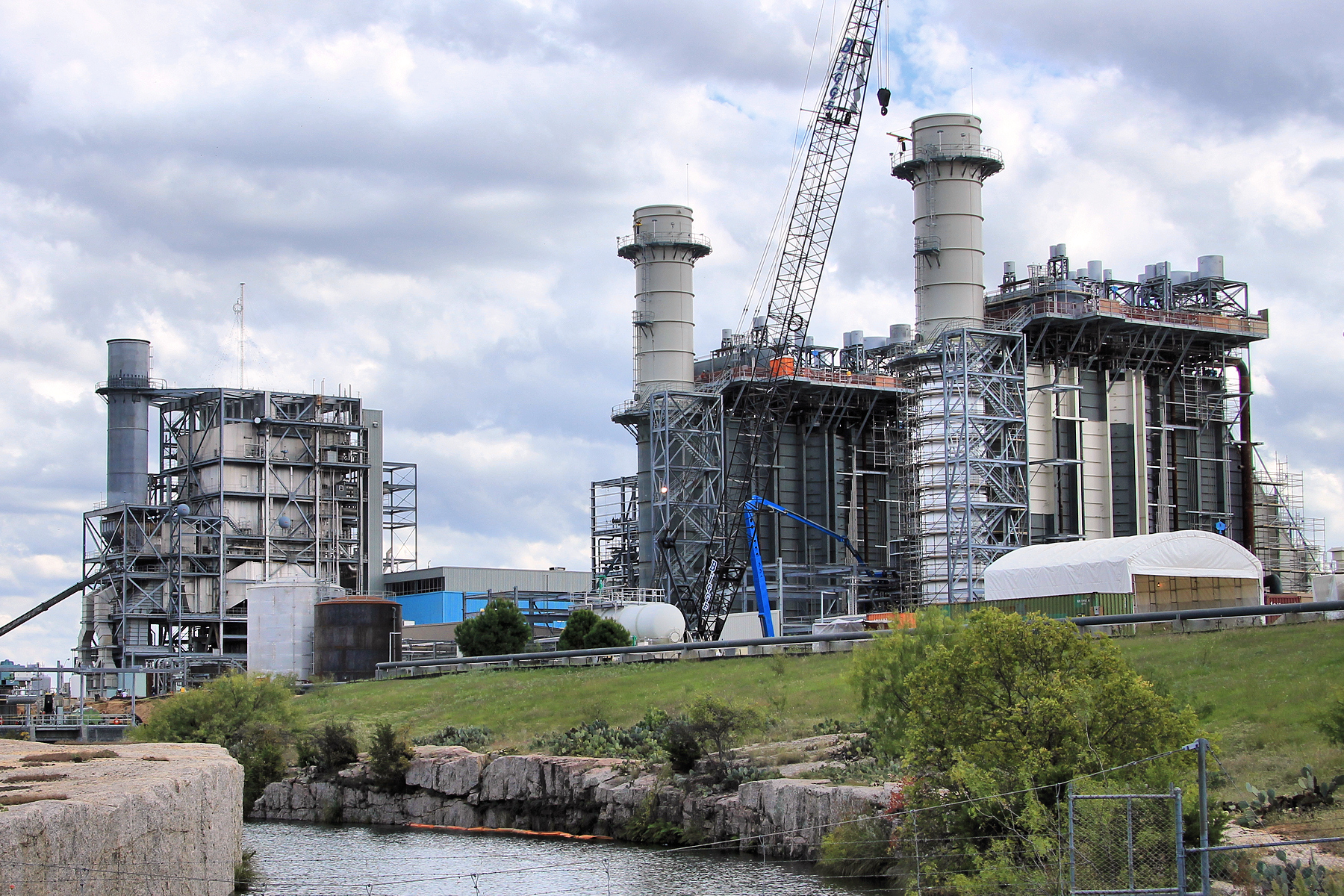 The natural gas-fired Thomas C. Ferguson Power Plant near Horseshoe Bay, Texas, United States. The old power plant (now dismantled) is in the background, and the new units (then under construction) are in the foreground. The plant is owned and operated by the Lower Colorado River Authority.